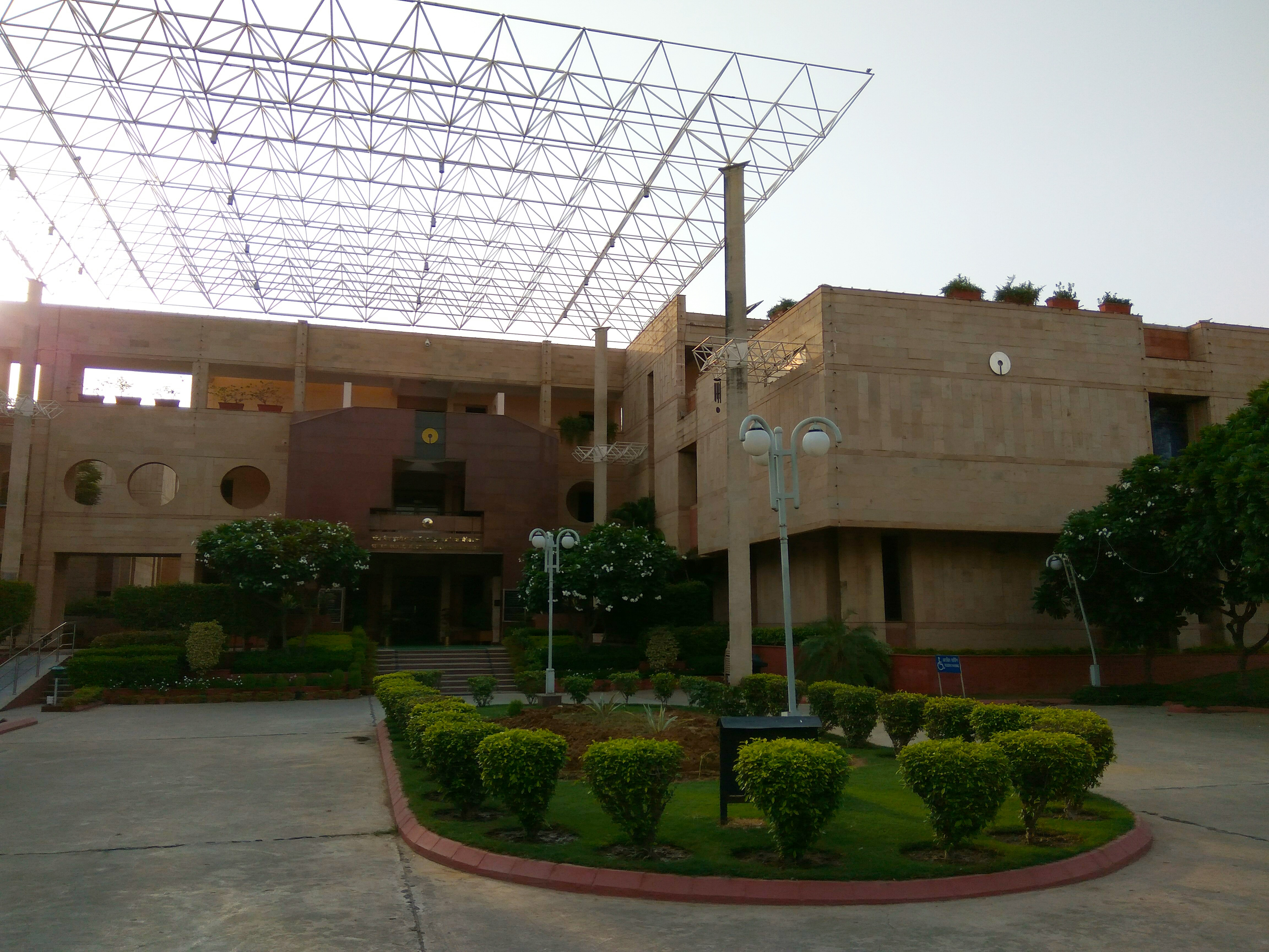 State Bank Institute of Credit and Risk Management, Gurgaon